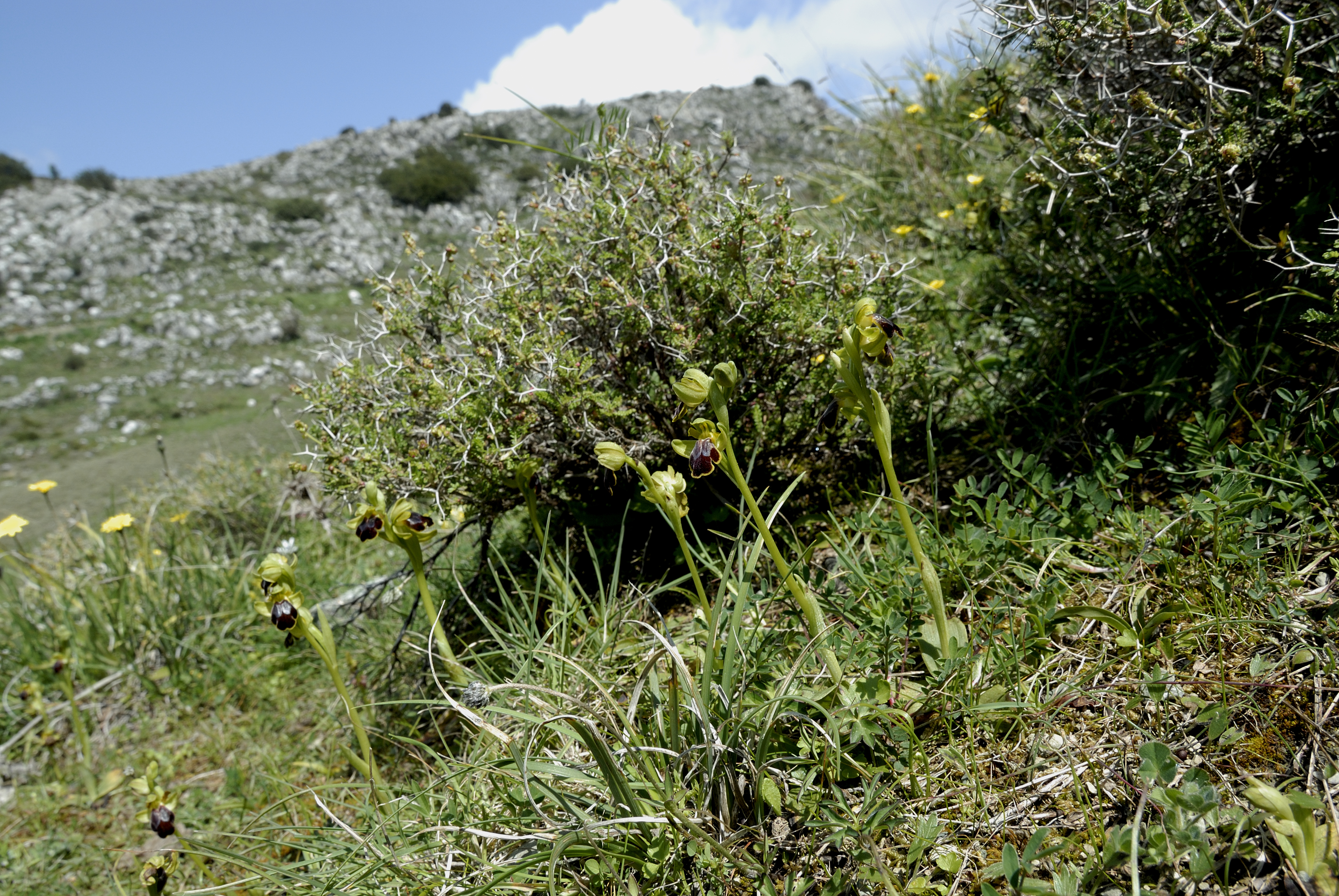 Ophrys cinereophila Gerakari/Crete